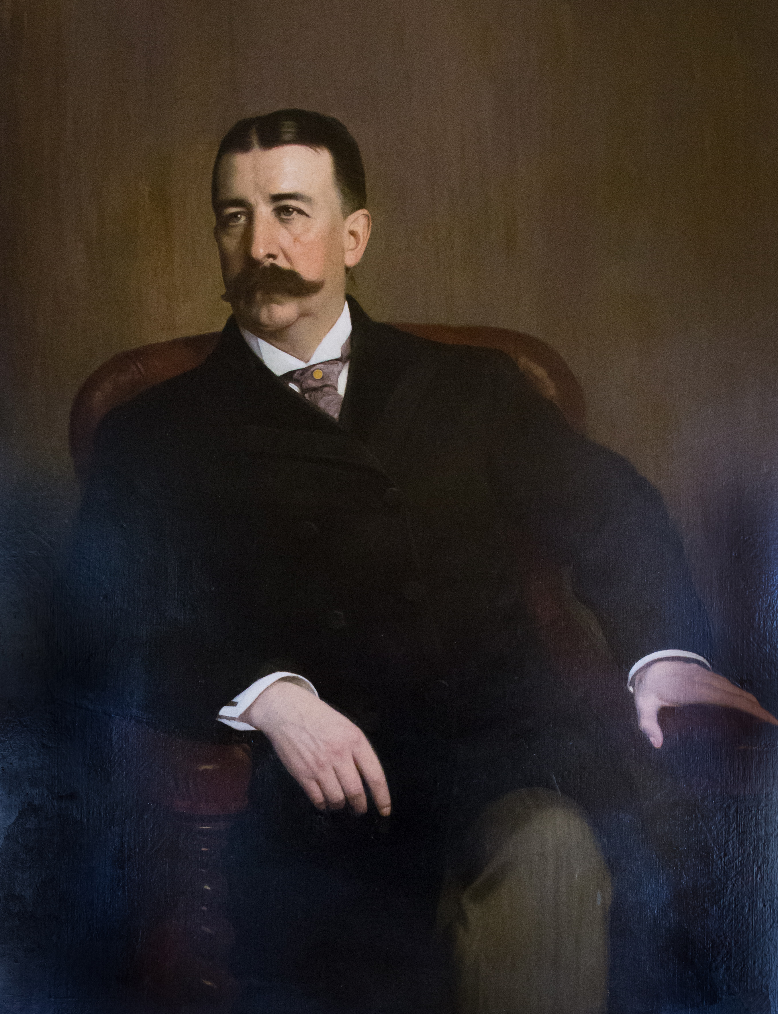 RI Governor D. Russell Brown, 43rd Governor of Rhode Island. Official portrait by Jared Bradley Flagg (1820-1899). Rhode Island State House portrait collection.